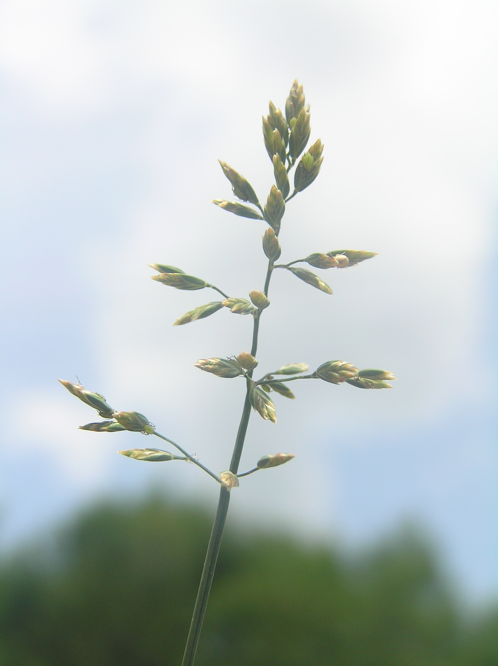 Poa compressa, Choceň, Czech Republic